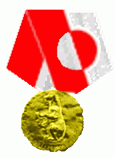 Grønlands Hjemmestyres Fortjenstmedalje Medal of Independence Greenland